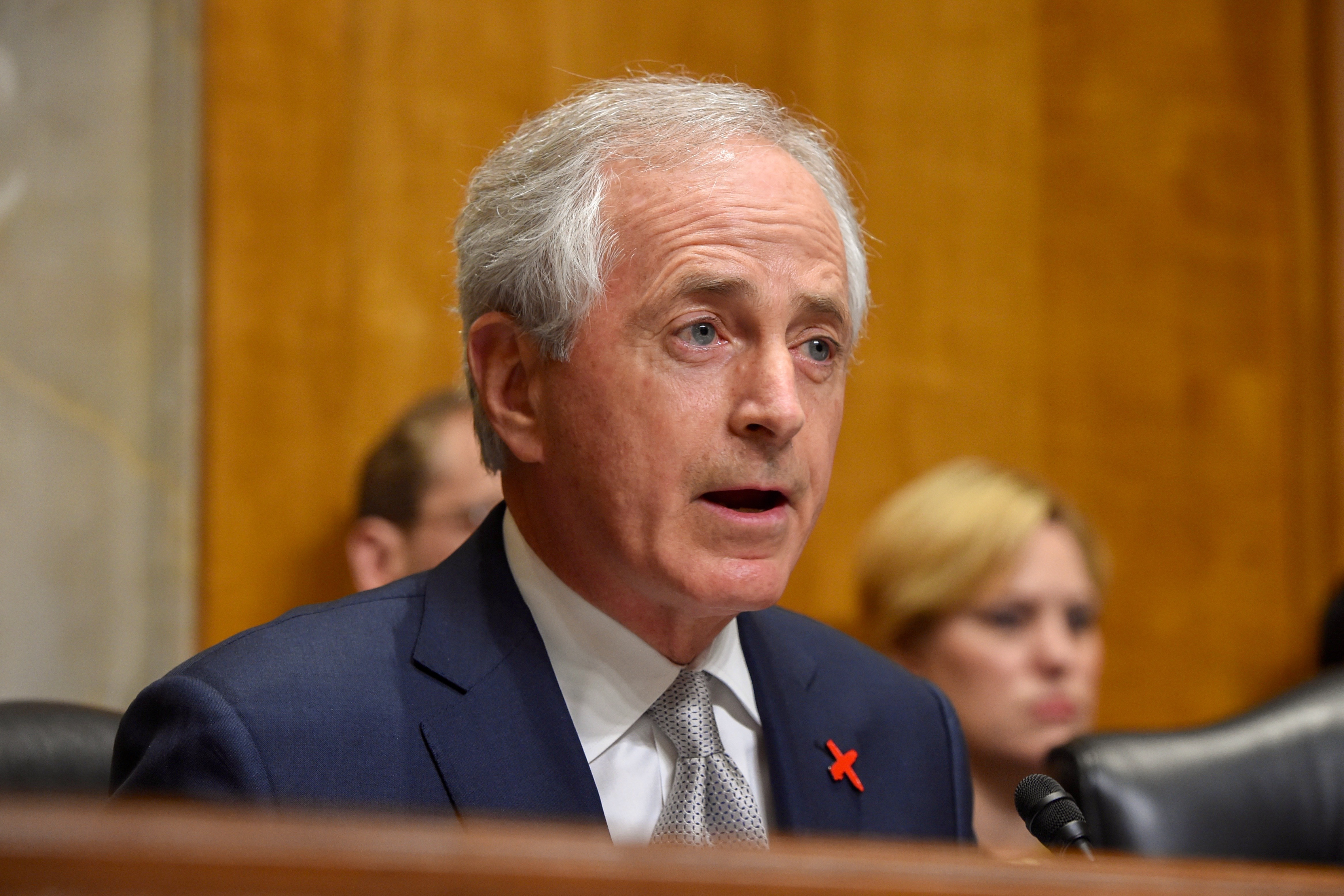 Senator Bob Corker of Tennessee, the Chairman of the Senate Foreign Relations Committee, addresses U.S. Secretary of State John Kerry on February 23, 2016, on Capitol Hill in Washington, D.C., during a discussion the Obama Administration's 2017 federal budget request. [State Department photo/ Public Domain]